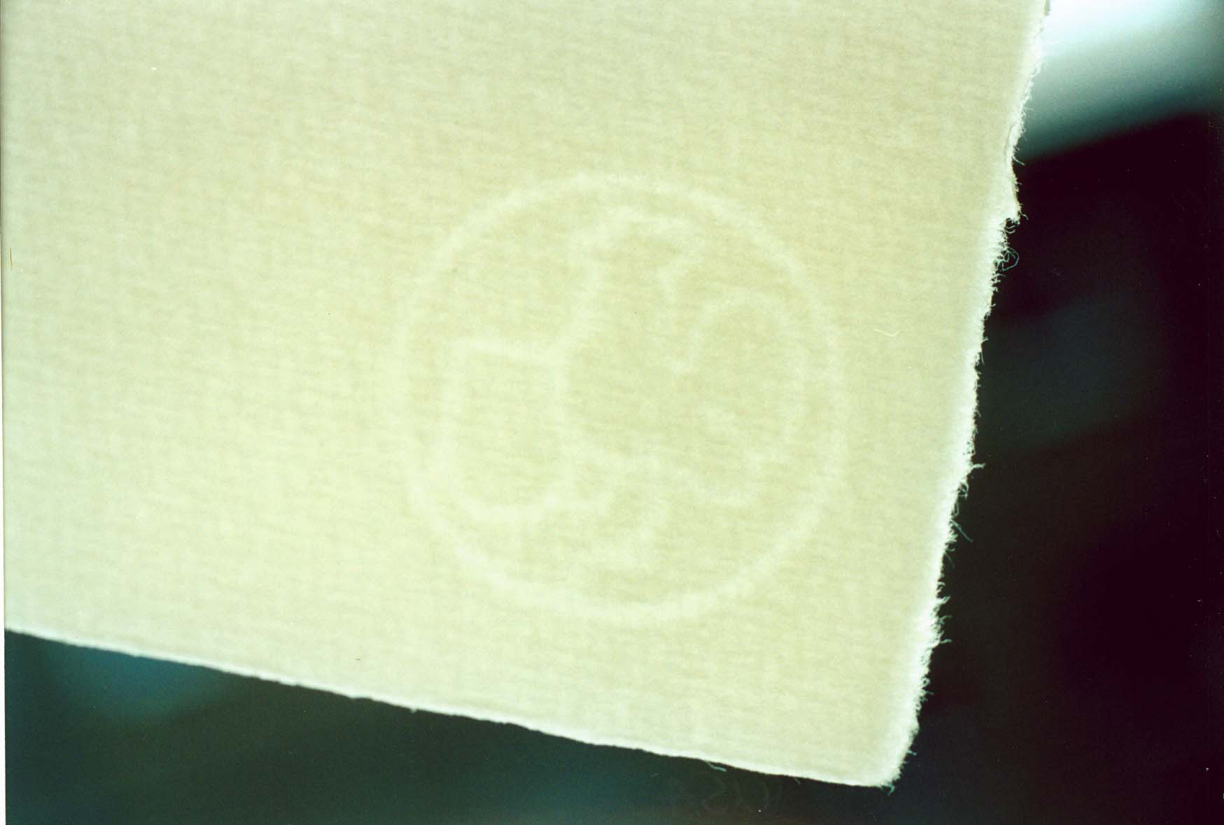 Hahnemühle Rooster is the watermark of the German paper manufacturer